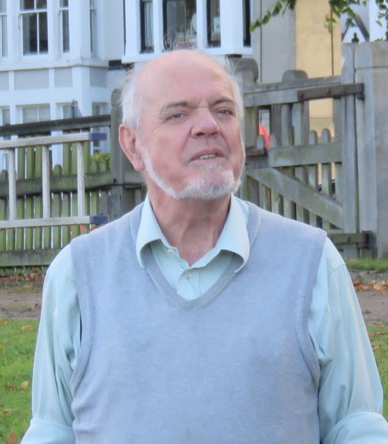 Tim Rowett, toy collector and presenter of the Youtube channel Grand Illusions, taken in 2015.